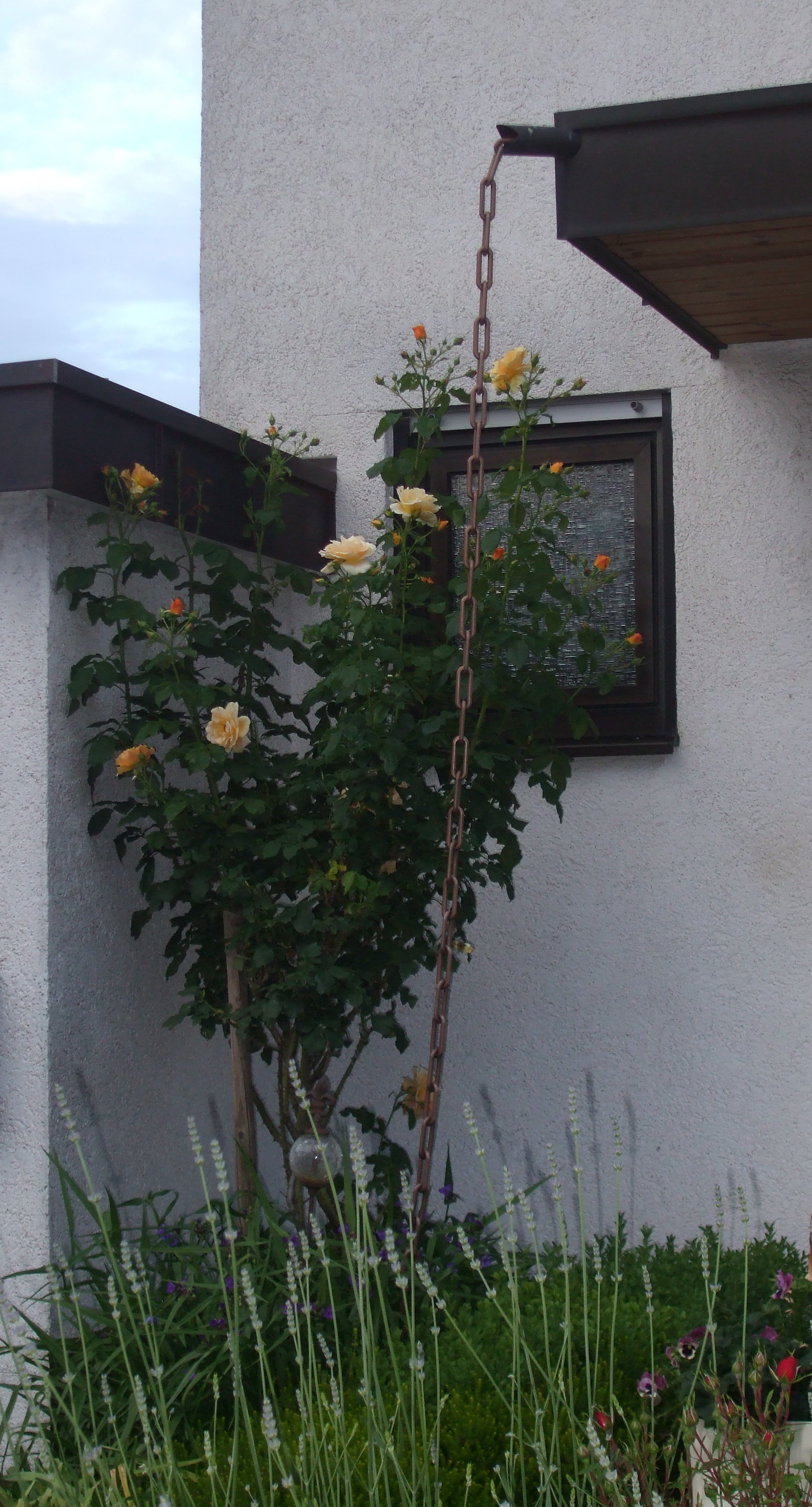 rain chain